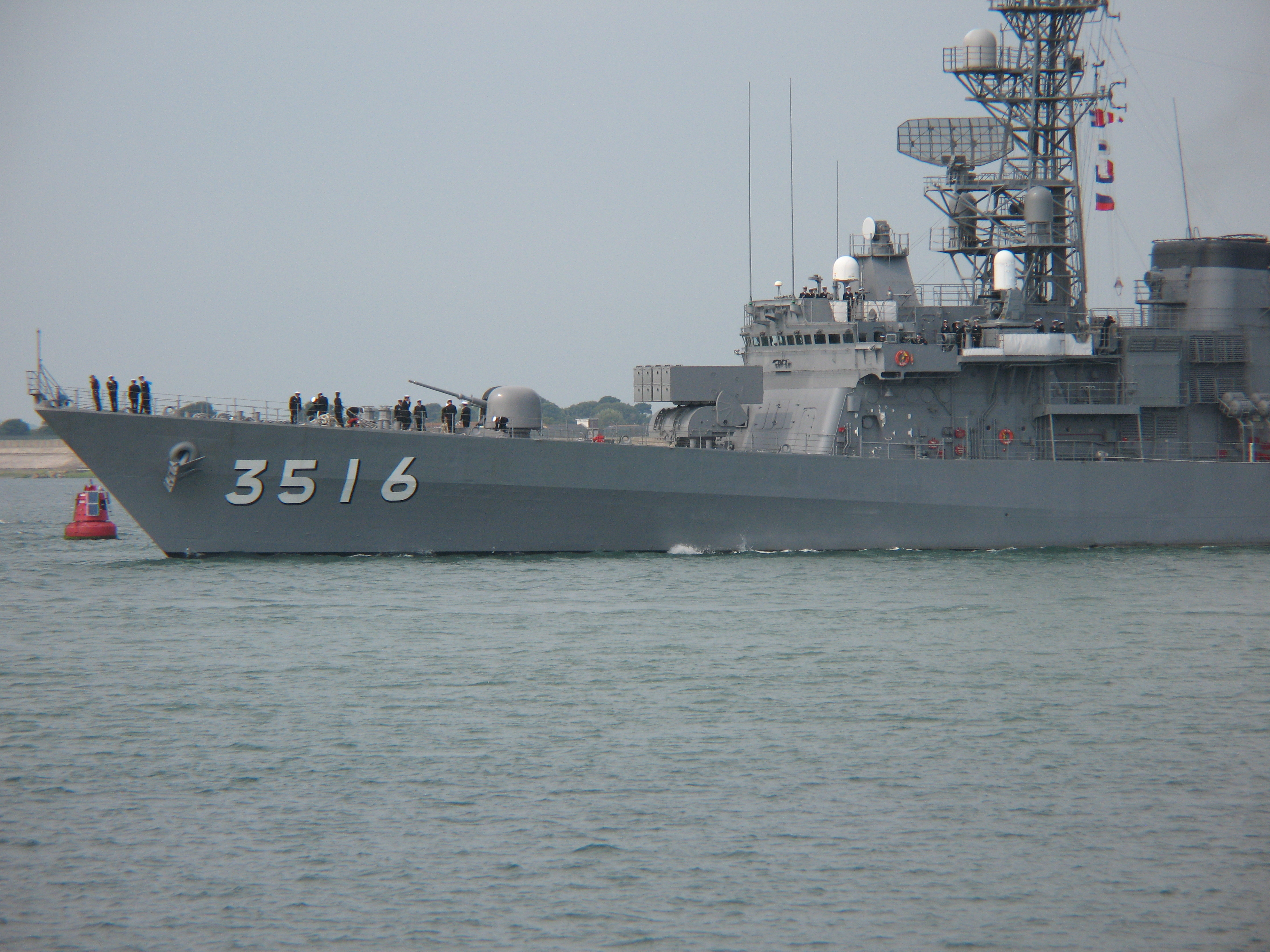 Japanese Maritime Self-Defense Force Asagiri class destroyer DD 158 Asagiri, showing its new pennant number of TV 3516 after reclassification as a training vessel, departing from Portsmouth Naval Base, UK, on 28 July 2008. Image uploaded by me, George Hutchinson, from a photograph taken by, and supplied by, Brian Burnell. The photograph should be attributed to Brian Burnell.